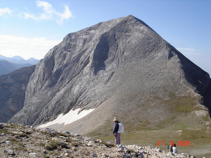 Vihren - the highest summit in Pirin mountain in Bulgaria